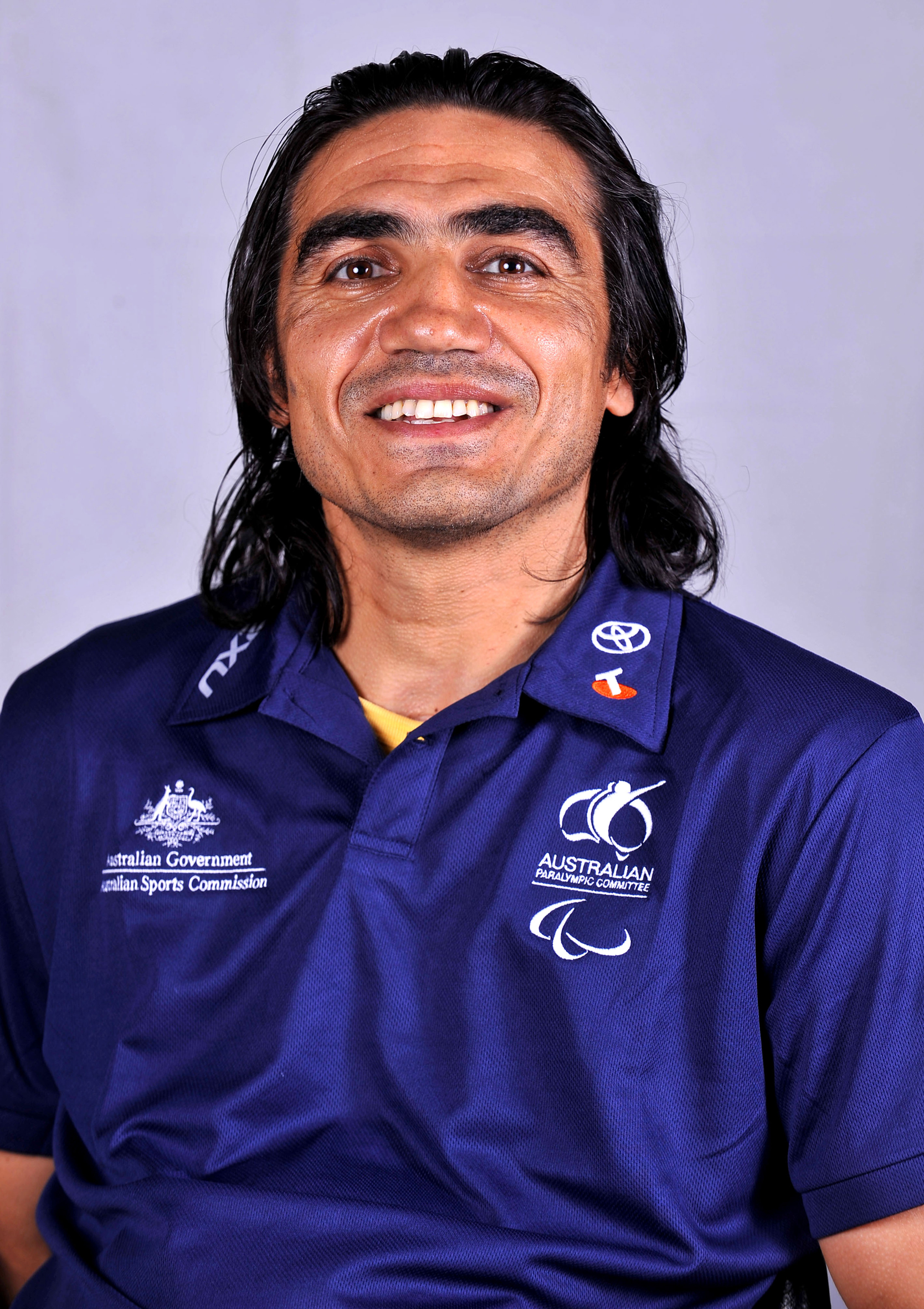 Portrait of Australian wheelchair rugby player Nazim Erdem, 2012 Australian Paralympic (shadow) Team athlete